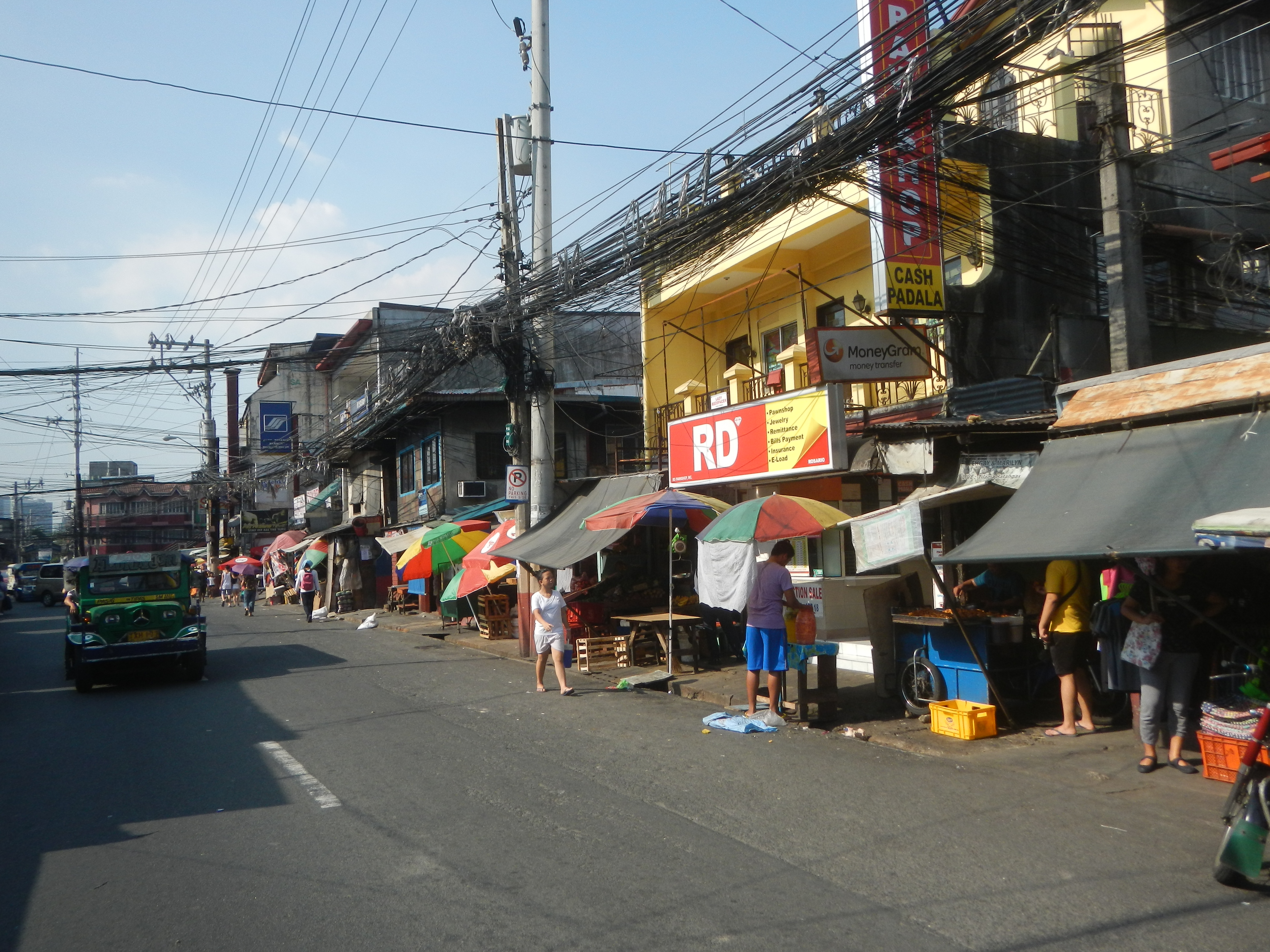 Rosario Bridge to Pasig Boulevard from Amang Rodriguez Avenue & Ortigas Avenue Junction - Pedestrian footbriges, Rosario, Pasig City to Dr. Sixto Antonio Avenue from Marikina–Infanta Highway Marcos Highway or MARILAQUE Highway or Manila-Rizal-Laguna-Quezon corner Eulogio Amang Rodriguez Avenue 14°36'24"N 121°5'31"E corner Ortigas Avenue Extension 14°35'0"N 121°7'27"E located in the Legislative district of Pasig City List of barangays of Metro Manila, Barangays Rosario 14°35'33"N 121°5'35"E beside Maybunga 14°34'41"N 121°5'25"E Caniogan 14°34'14"N 121°4'48"E Pasig City Dr. Sixto Antonio Avenue Stella Maris Street Sandoval Bridge (Pasig River, Ugong Norte-Maybunga, Pasig City) to C. Raymundo Avenue 14°34'32"N corner Pasig Boulevard Extension to Pasig Boulevard connected by Vargas Bridge over Pasig River Radial Road 5 Circumferential Road 5 to Shaw_Boulevard (Note: Judge Florentino Floro, the owner, to repeat, Donor Florentino Floro of all these photos hereby donate gratuitously, freely and unconditionally all these photos to and for Wikimedia Commons, exclusively, for public use of the public domain, and again without any condition whatsoever).